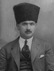 Feridun Fikri (Düşünsel)